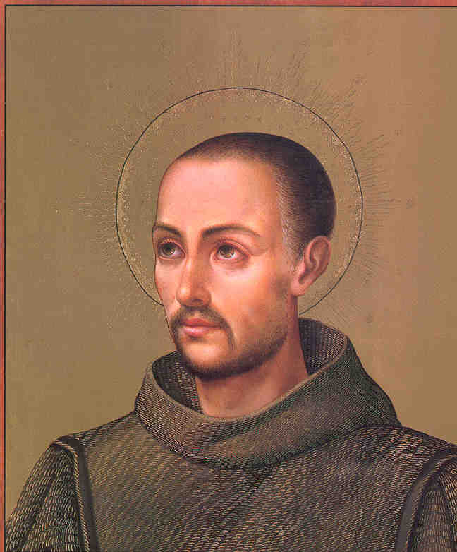 Juan Ciudad, Sant Joan de Déu